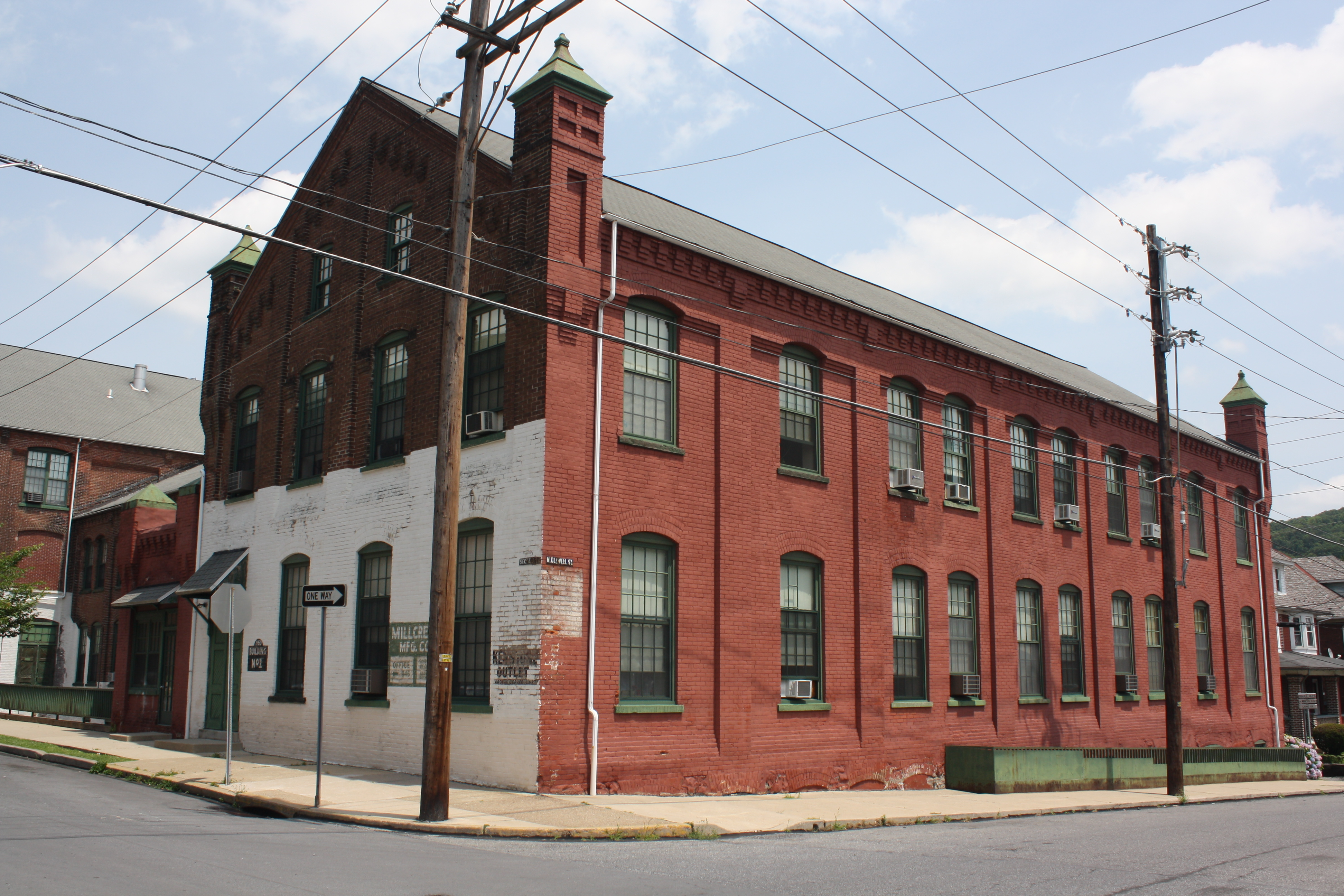 Lipps & Sutton Silk Mill is one of the Lehigh Valley Silk Mills, a historic silk mill complex located at Fountain Hill, Northampton County, Pennsylvania.